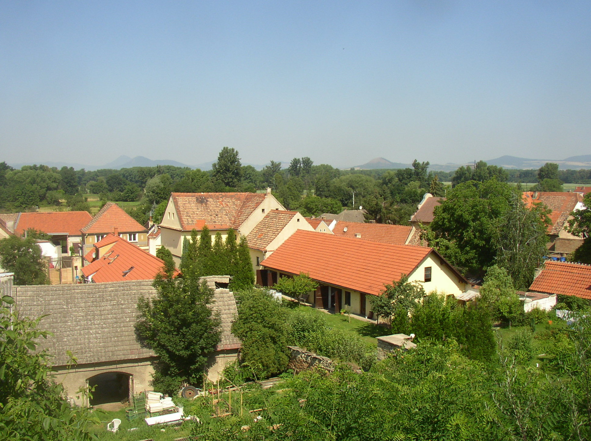 Dolánky nad Ohří, Litoměřice District. A view over foofs of central part of the villag towards northwest. The belt of trees in the background (well visible in the right beyont the field) indicates course of the Ohře River.